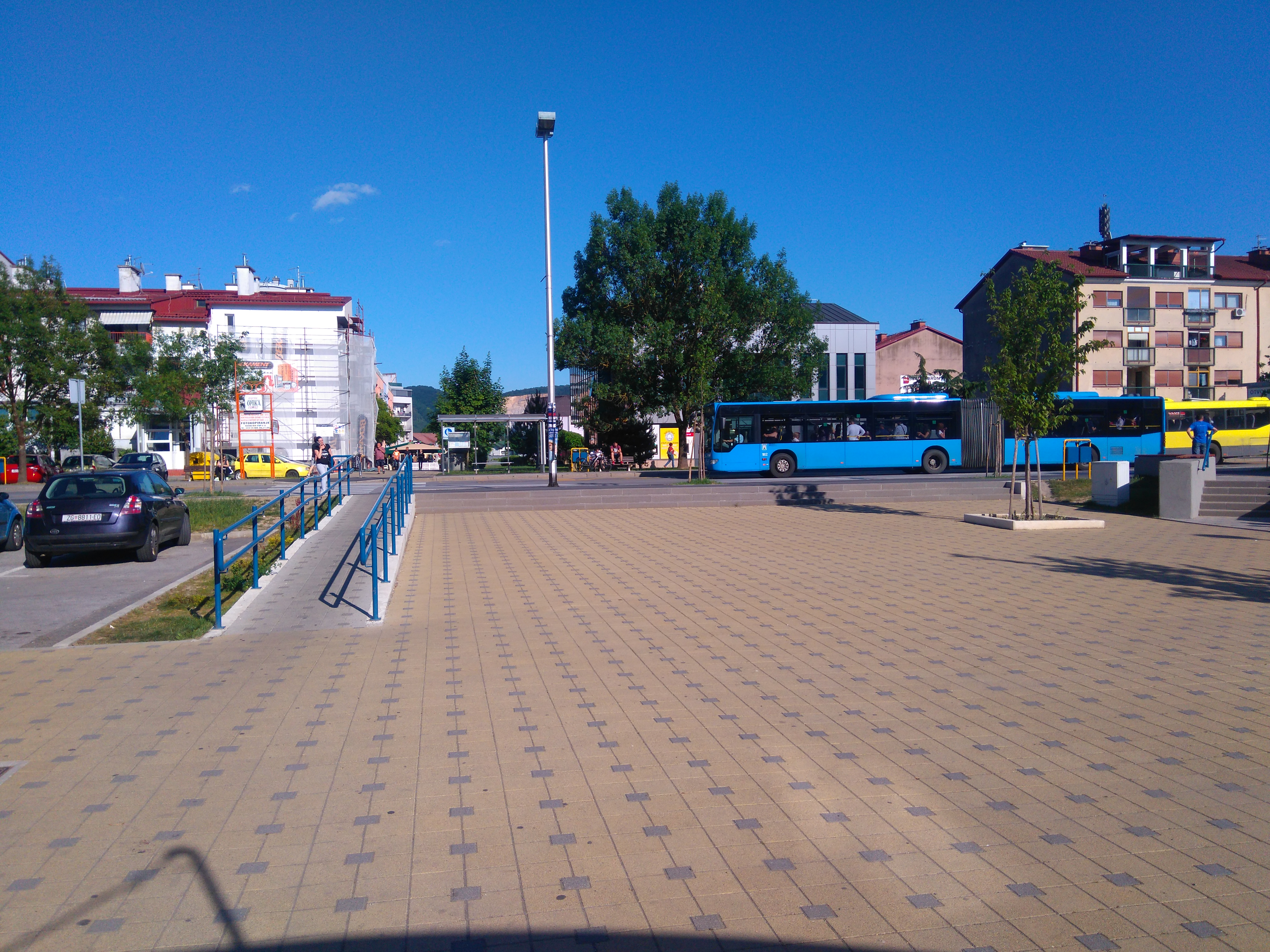 Autobus odlazi sa terminala